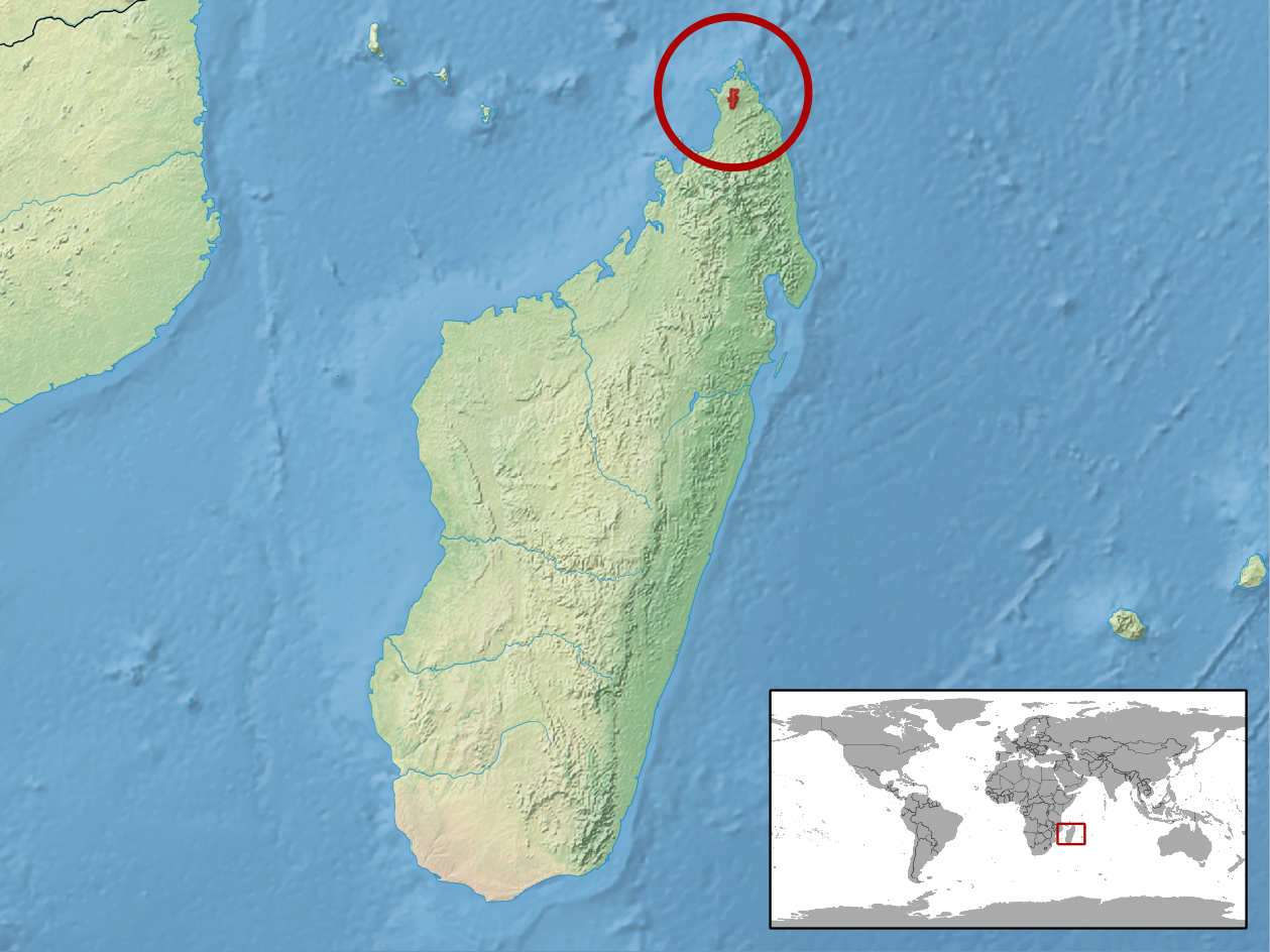 geographic distribution of Brookesia antakarana (Native: Madagascar)